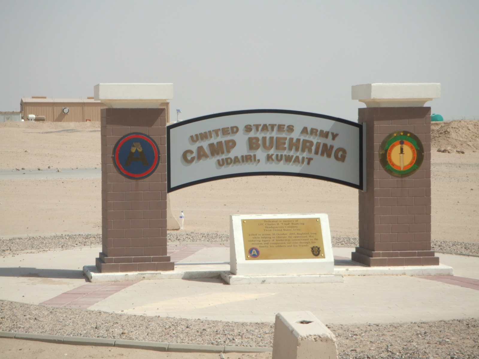 Camp Buehring Kuwait entry point sign - Google Maps - Google Earth